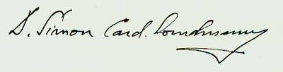 Signature of Cardinal lourdusamy of india